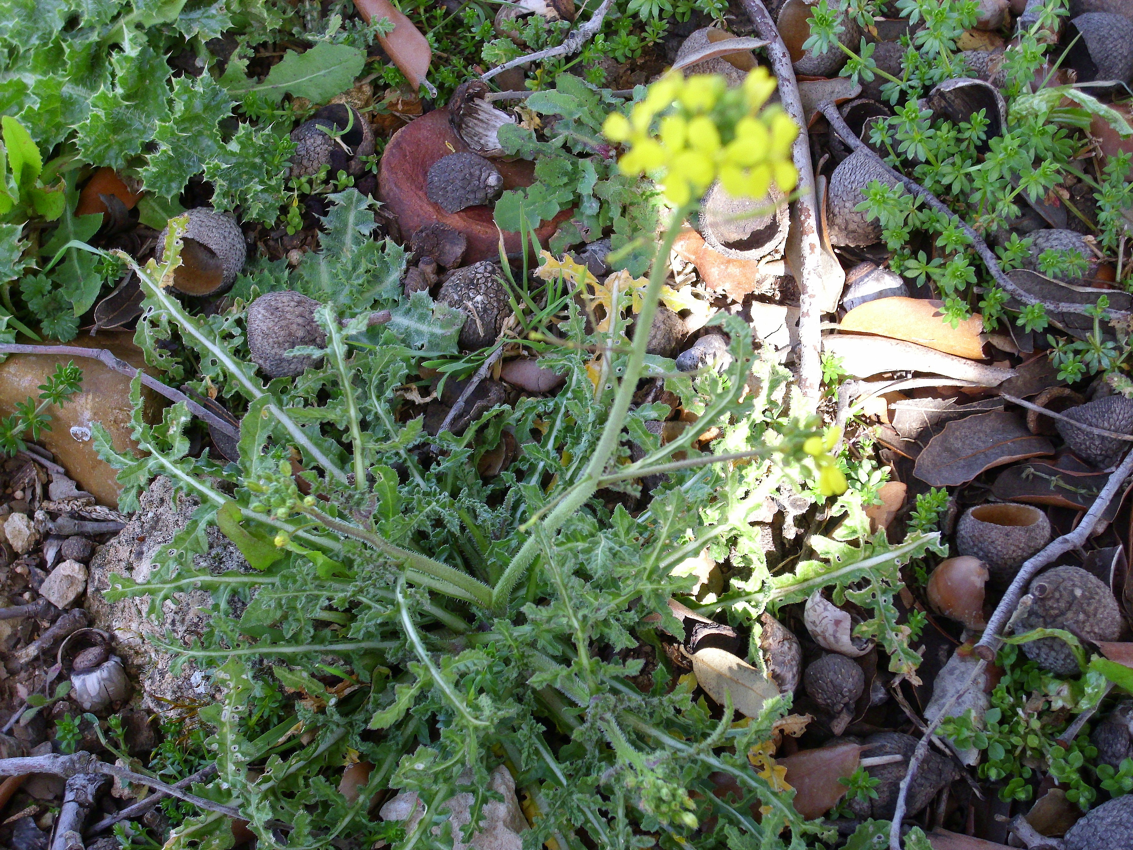 Erucastrum nasturtiifolium habit Campo de Calatrava, Spain